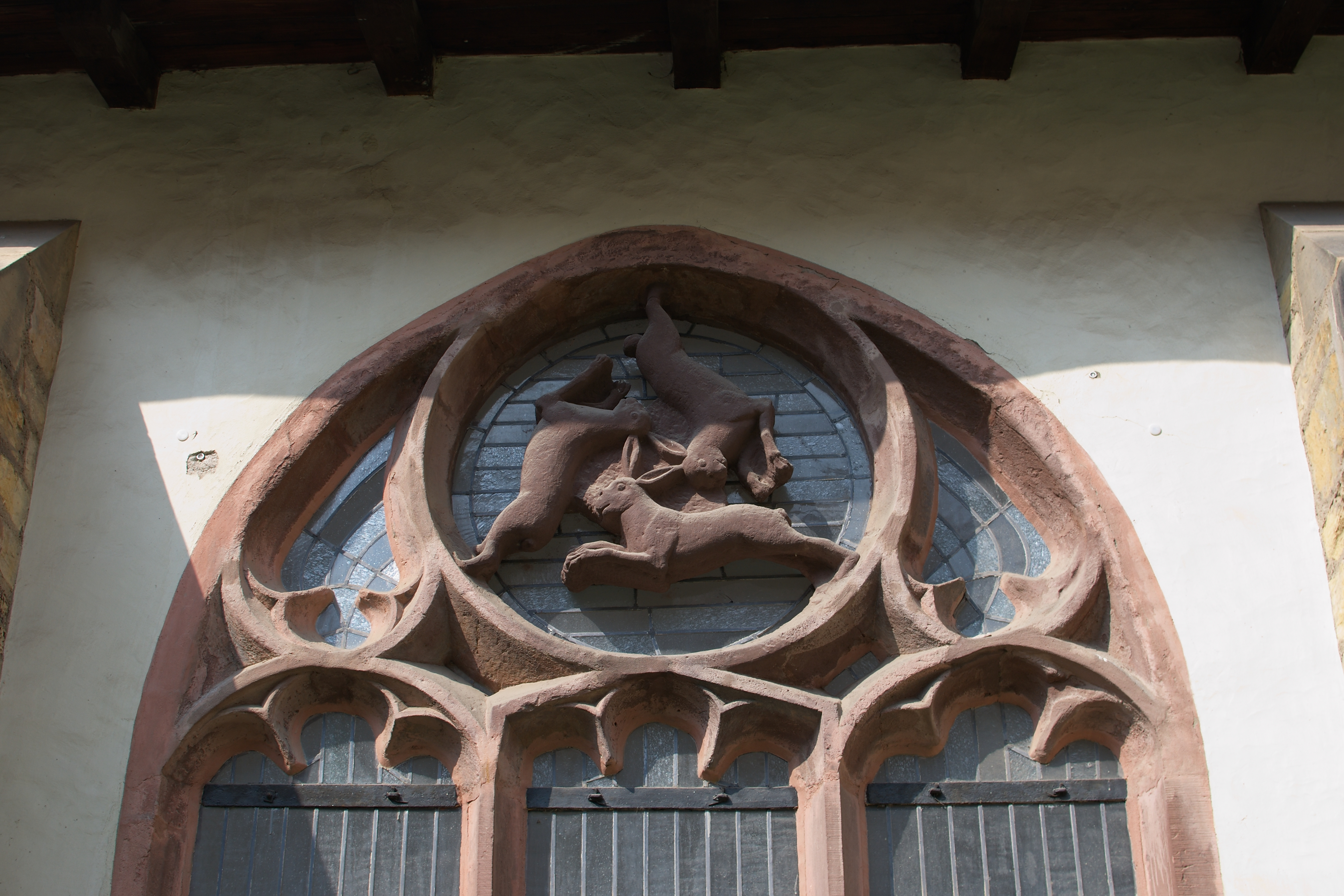 "Dreihasenfenster" in the Paderborn Cathedral